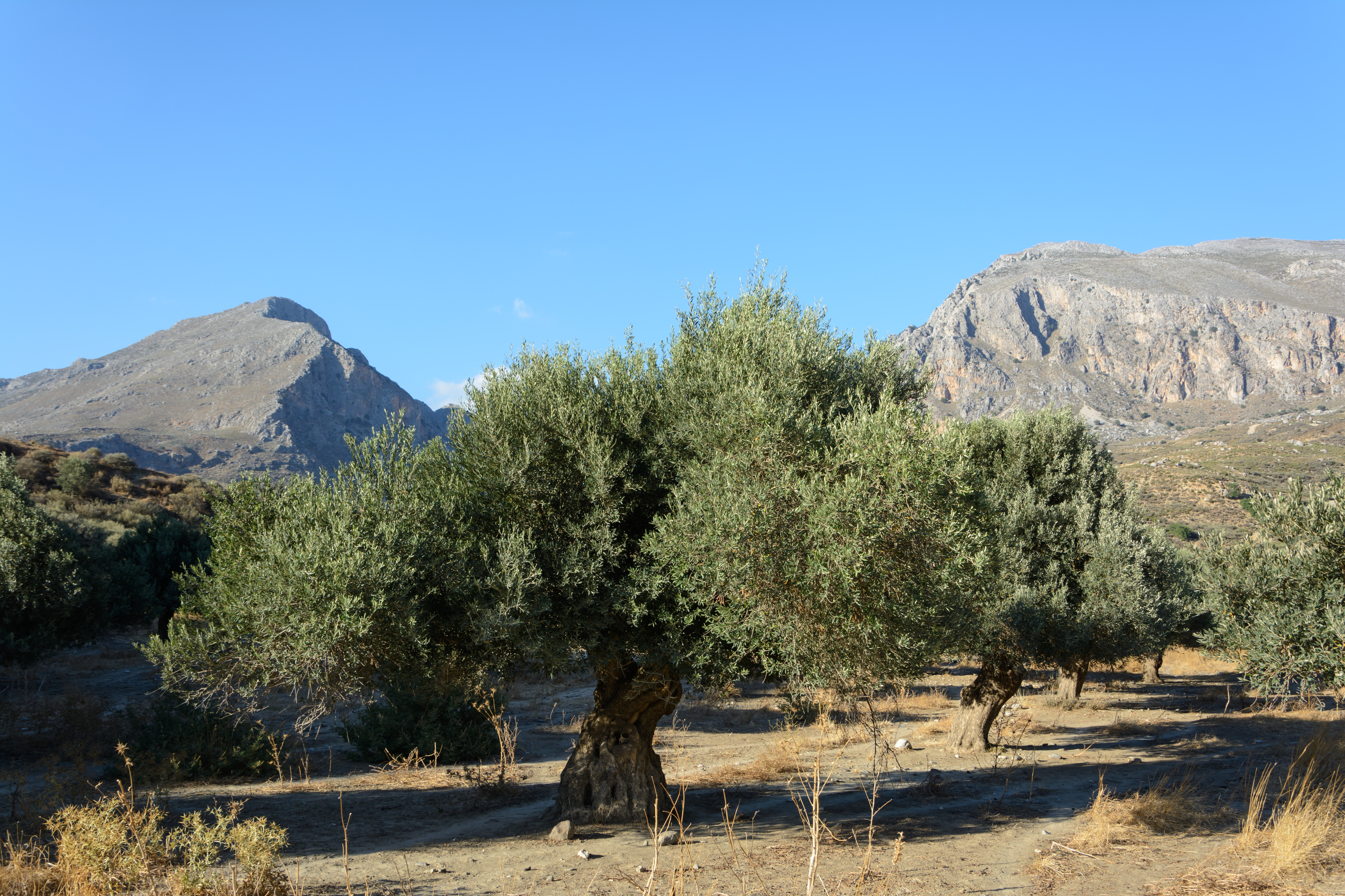 Olive tree (Olea europaea) in an orchard near Preveli, Crete